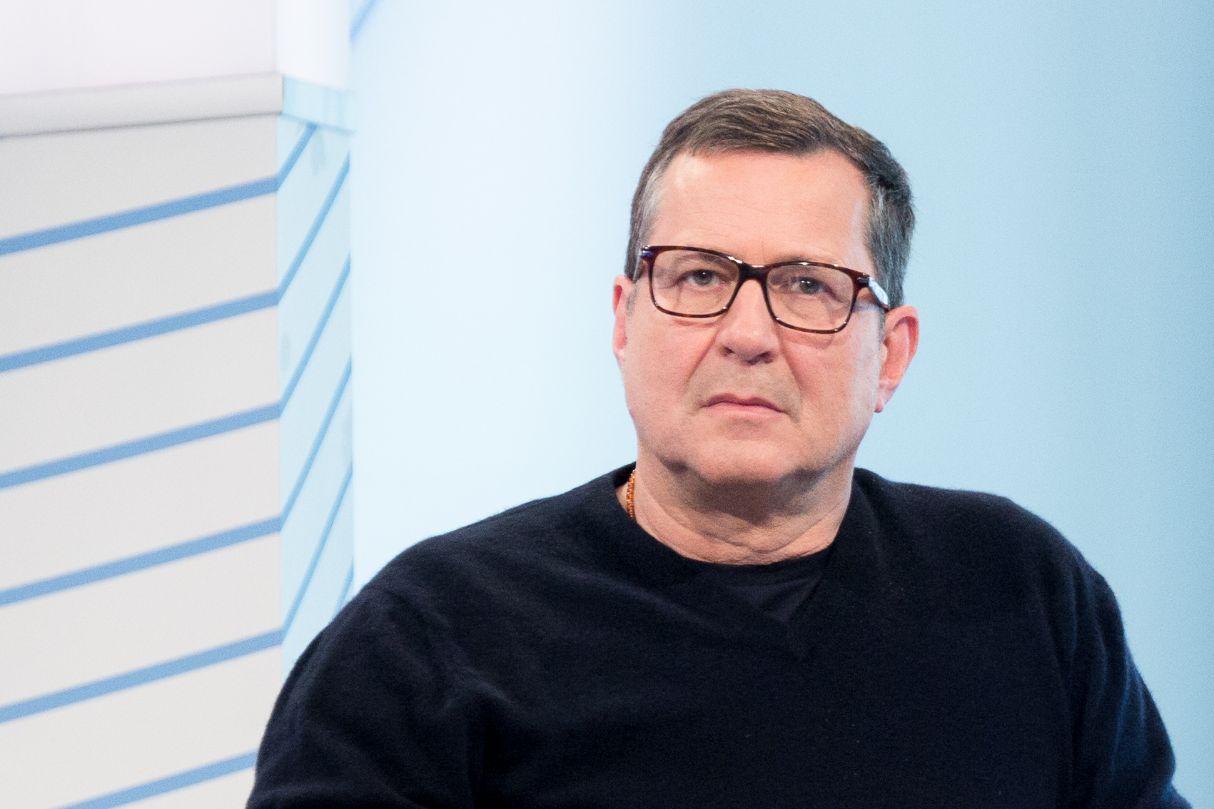 The writer Jürgen Schlagenhof at the Frankfurt Book Fair 2017